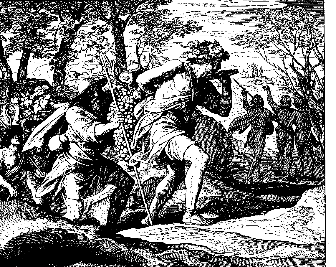 Woodcut for "Die Bibel in Bildern", 1860.